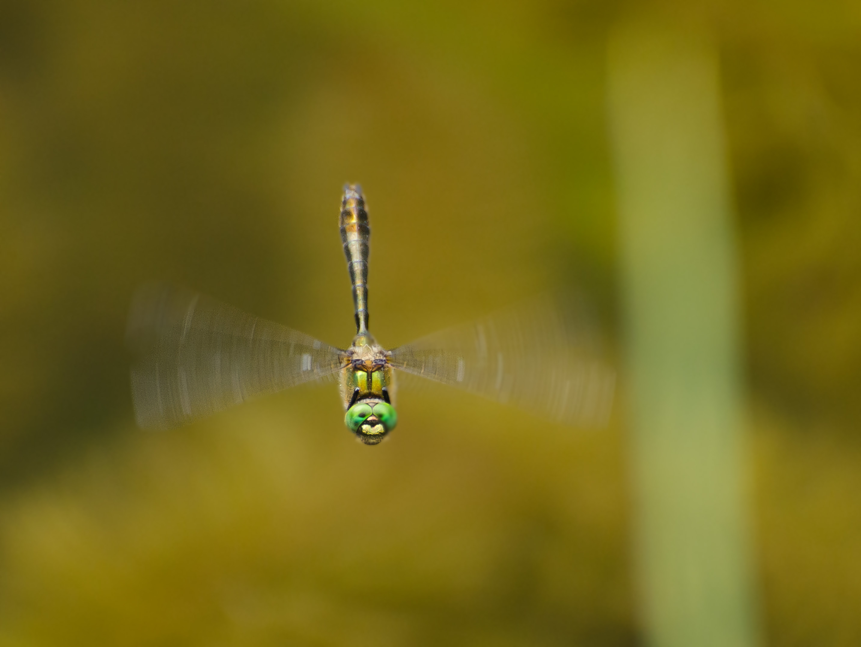 Downy emerald (Cordulia aenea) in flight. Forerst pond near Stuttgart, Germany. Thanks to the members of Entomologie.de for the identification.